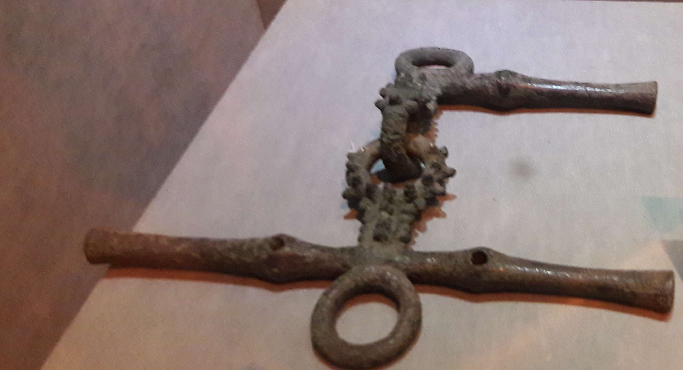 دهنه اسب احتمالا مربوط به اسبان نسایی مربوط به دوران هخامنشیان